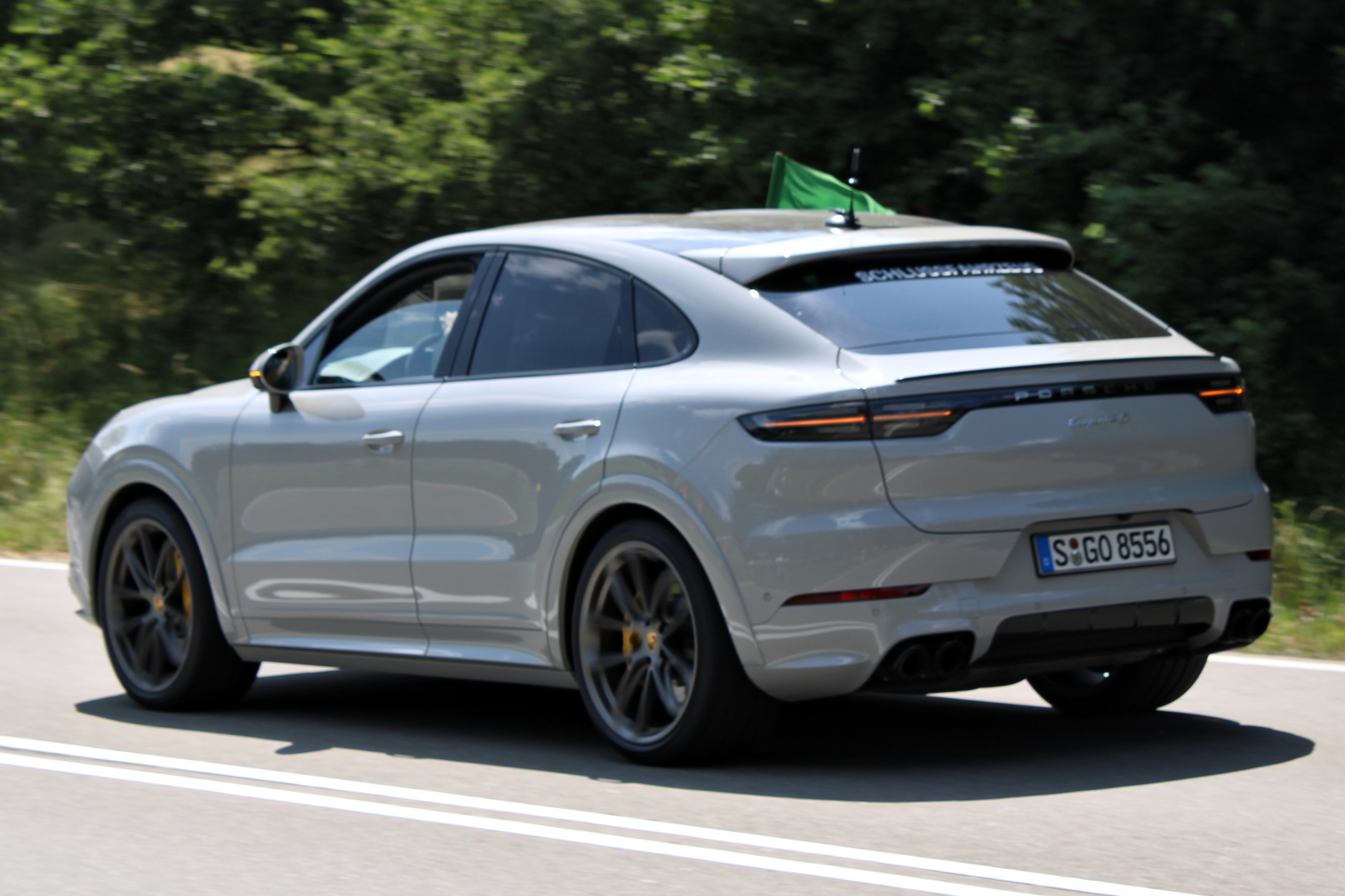 Porsche Cayenne Coupé S at Solitude Revival 2019